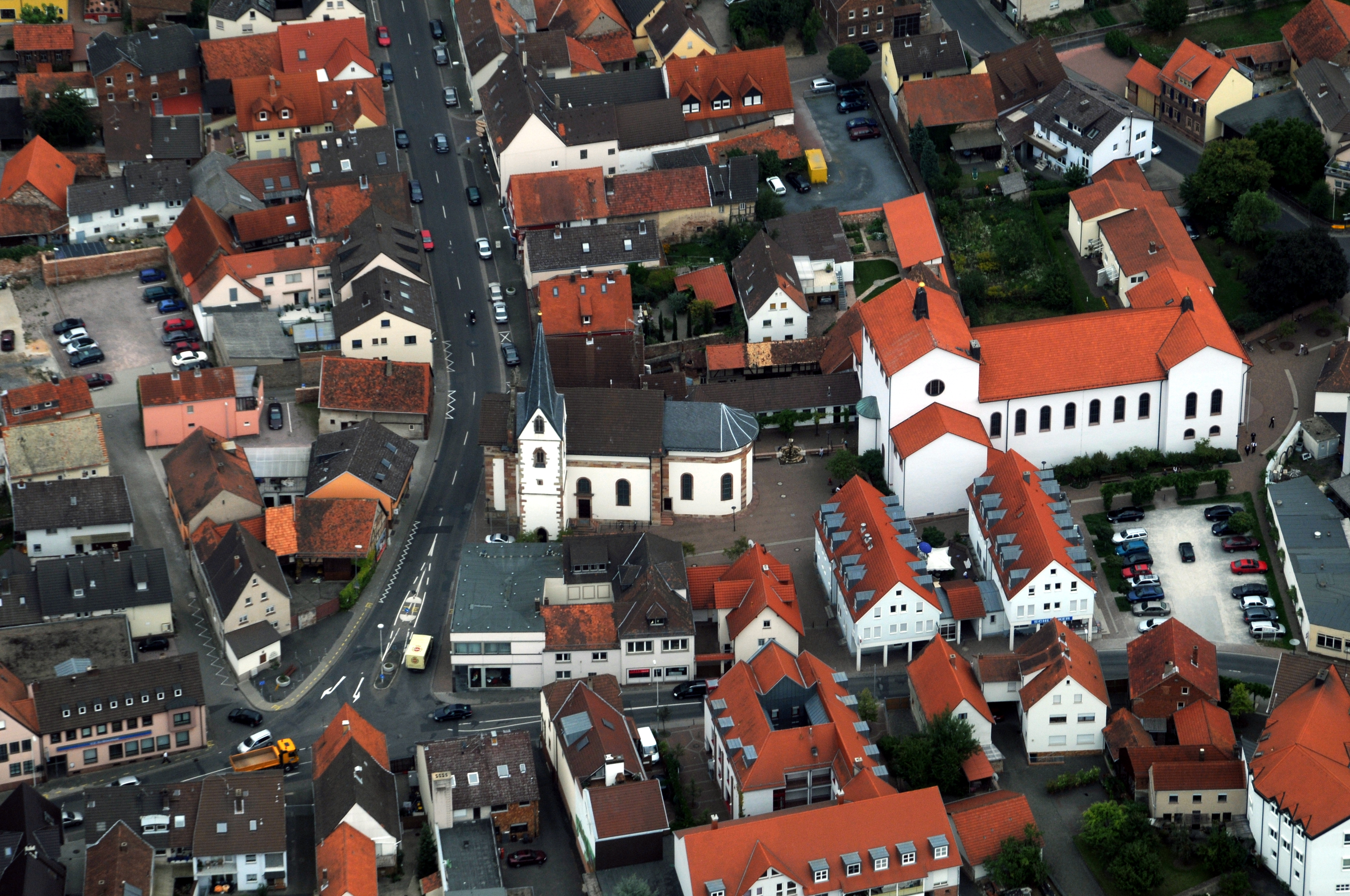 Sulzbach am Main, Bavaria, Germany, aerial photograph